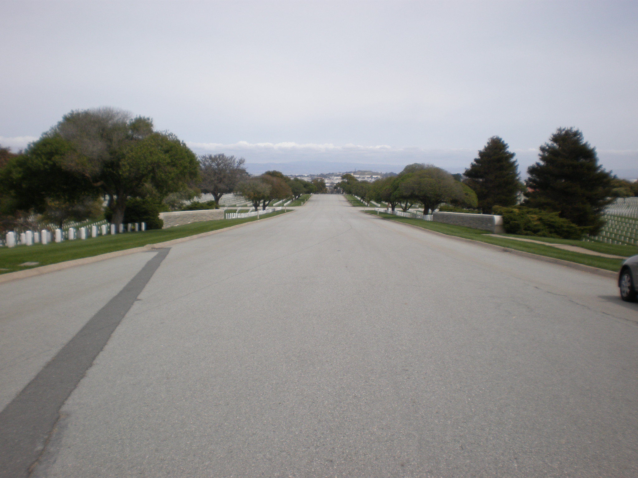 Admiral Nimitz Drive, one of the roads in Golden Gate National Cemetery in San Bruno, California.